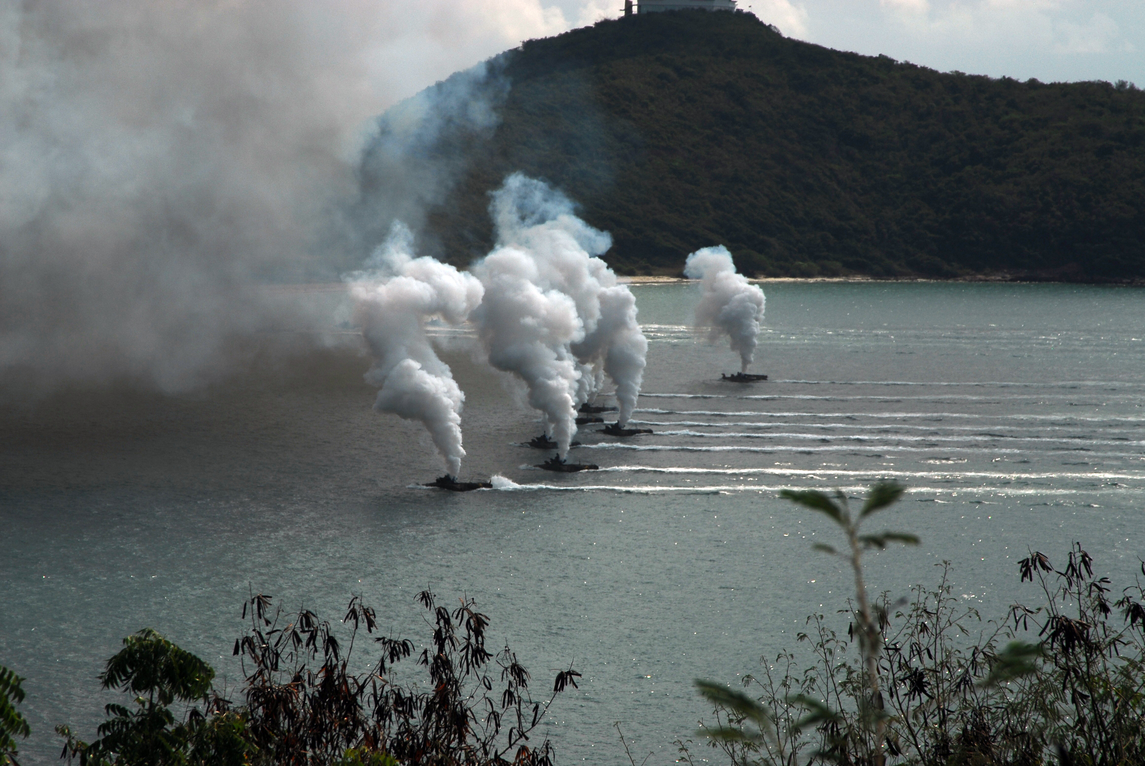 HAT YAO, Thailand (Feb. 4, 2010) Republic of Korea amphibious assault vehicles release a smoke screen before hitting the beach during a Cobra Gold 2010 amphibious landing demonstration at Hat Yao Beach during. Cobra Gold is a joint and coalition multinational exercise hosted annually by the Kingdom of Thailand. (US Navy photo by Lt. Cmdr. Denver Applehans/Released)